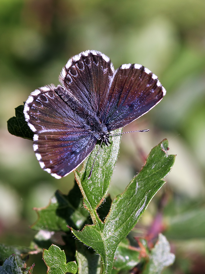 Scolitantides orion - Bukk Hills, Hungary, 27/05/2016